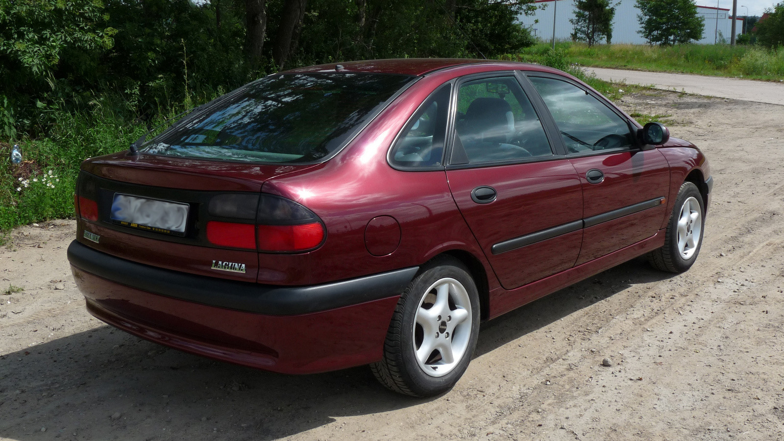 Renault Laguna I Phase I - Rear